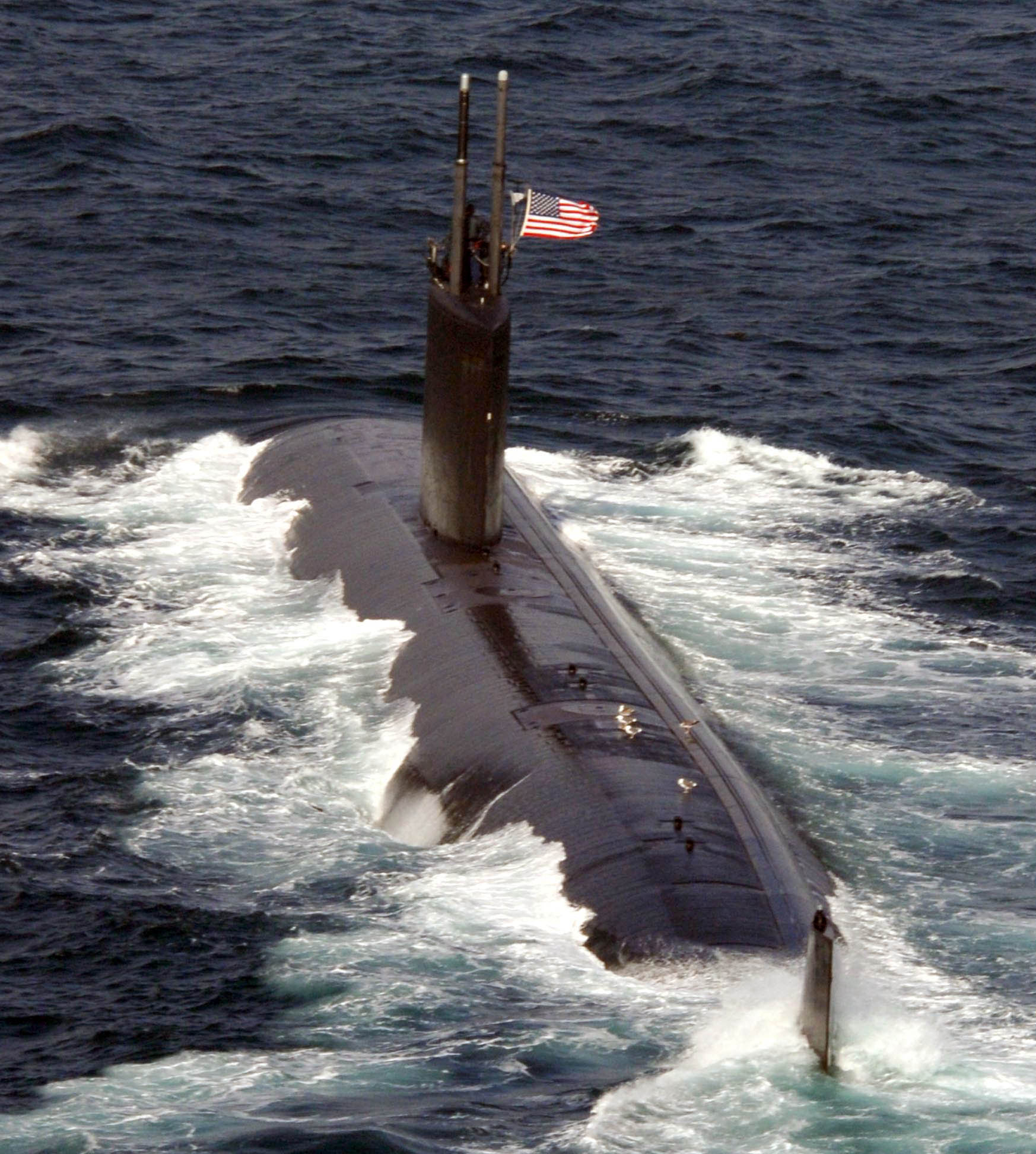 San Diego (Feb. 15, 2006) - The Los Angeles-class fast attack submarine USS Asheville (SSN 758), gets underway in preparation of conducting high-speed surface drills off the coast of Southern California. Asheville, assigned to Submarine Squadron Eleven, is home ported in Naval Base Point Loma, Calif. U.S. Navy photo by Photographer’s Mate 2nd Class Scott Taylor (RELEASED)